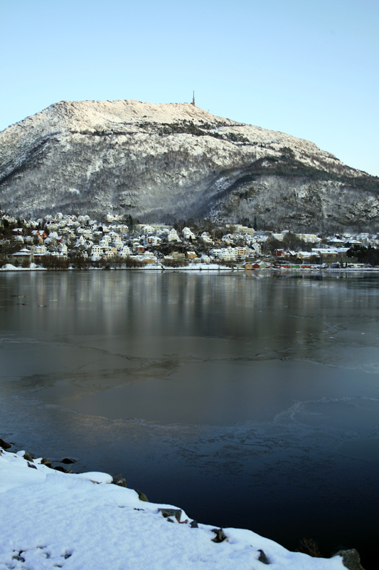 Ulriken as seen from Danmarksplass, Bergen